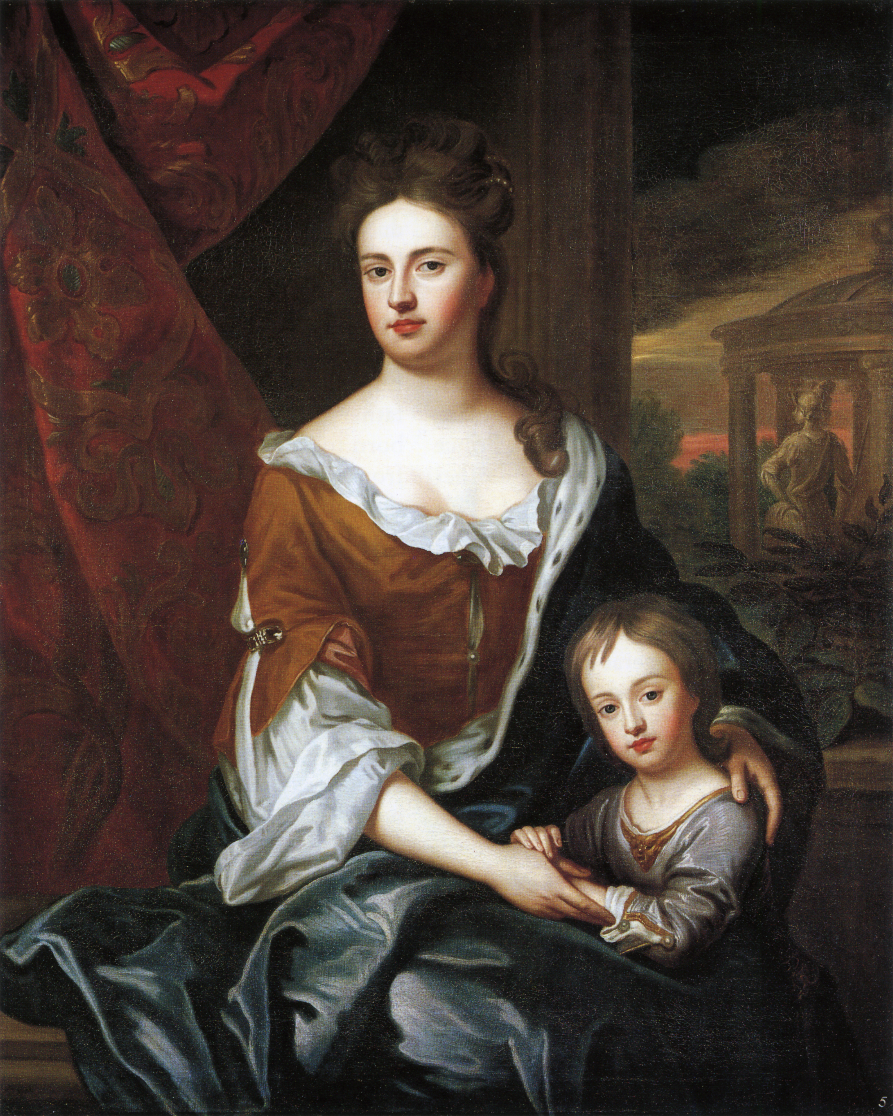 Queen Anne and her son William, Duke of Gloucester (1689-1700)